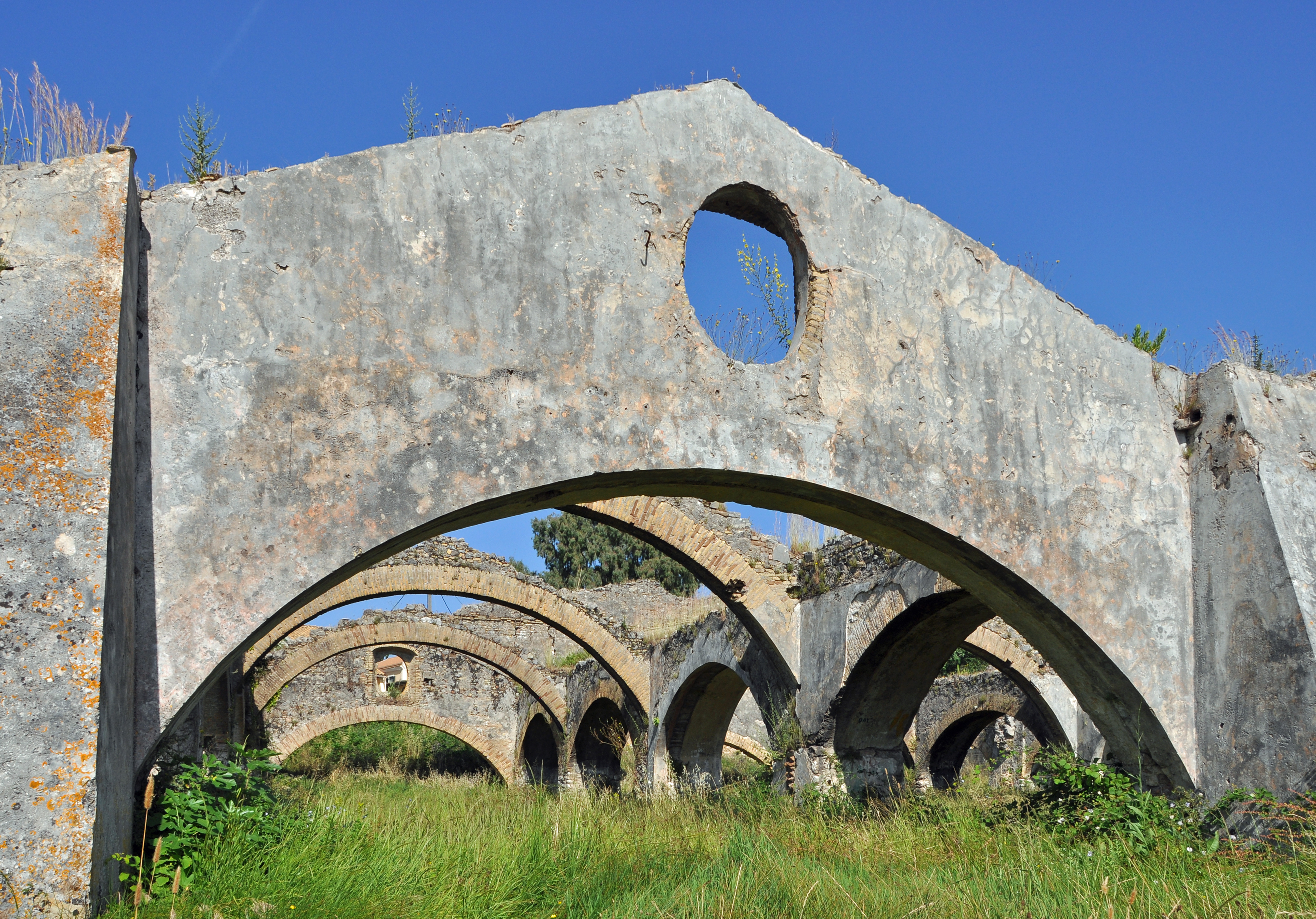 Gouvia (Corfu island, Greece): ruins of the former Venetian shipyard